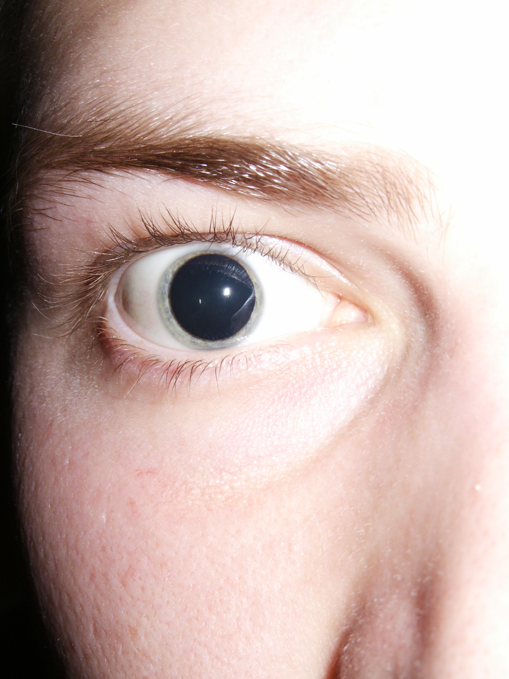 Dilated pupils after an optometrist appointment.